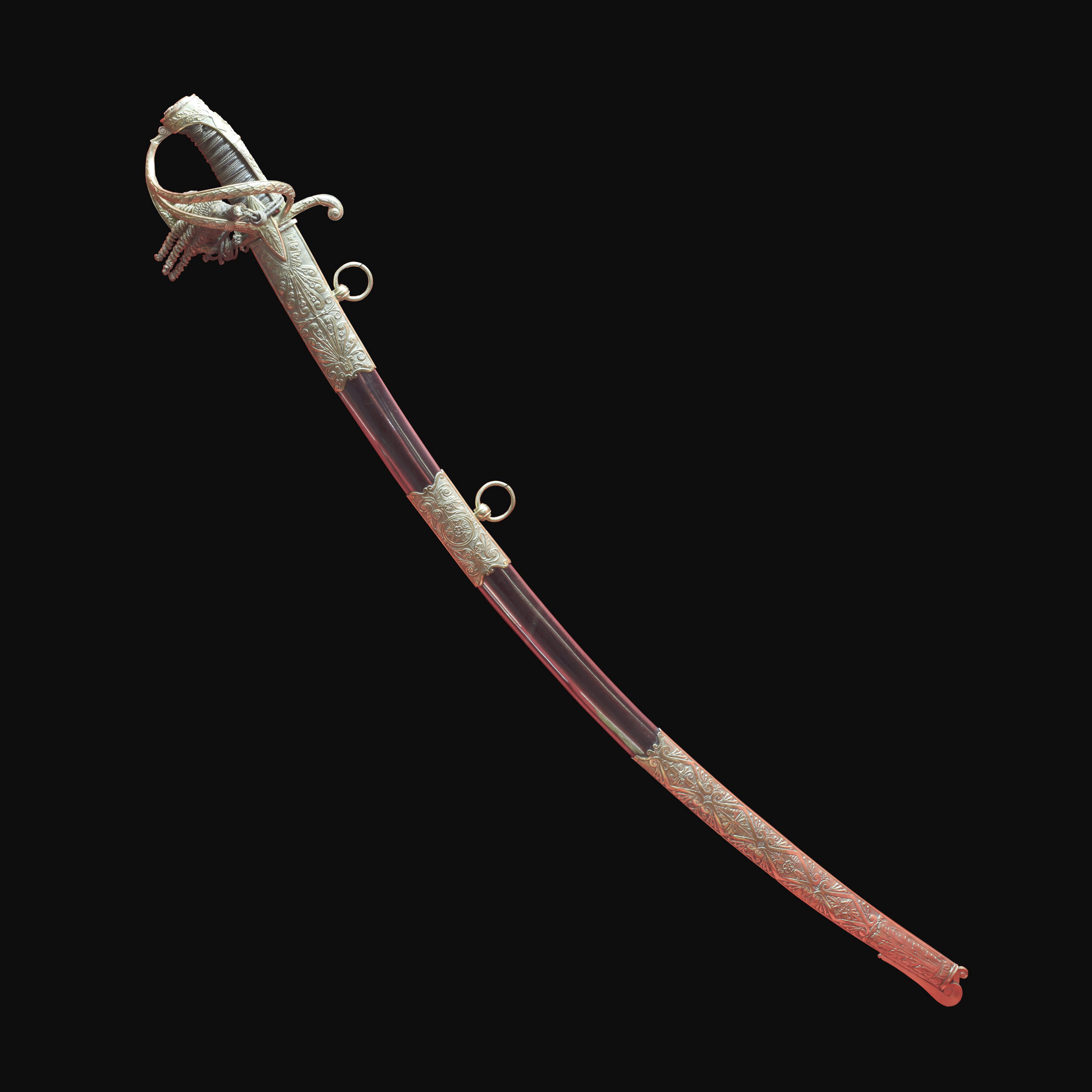 Senior officer sabre of the Hussards. First Empire. On display at Neuchâtel Musée d'art et d'histoire.